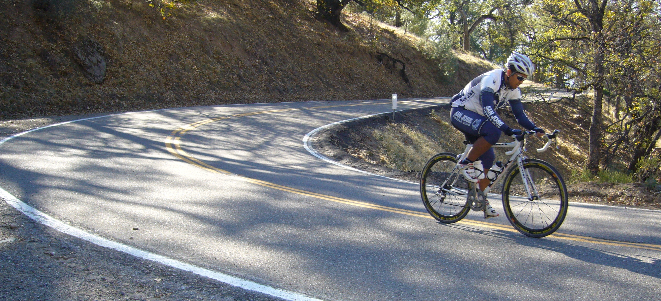 Local cyclist (San Jose Bicycle Club) on an ascent of the mountain in the morning of November 22, 2007.